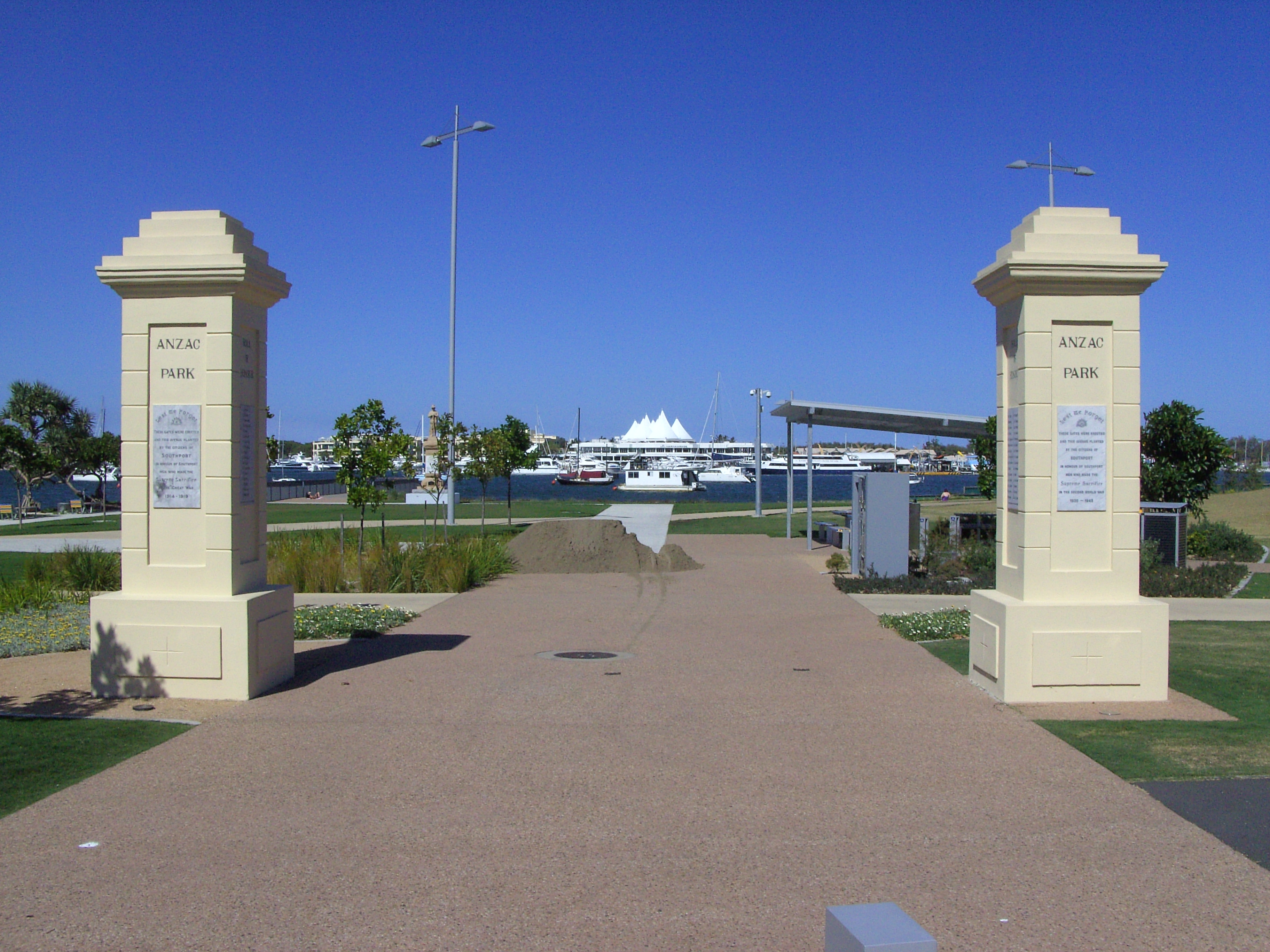 Anzac memorial, Southport, Queensland, after relocation in 2010. Gates, with statue behind-left.